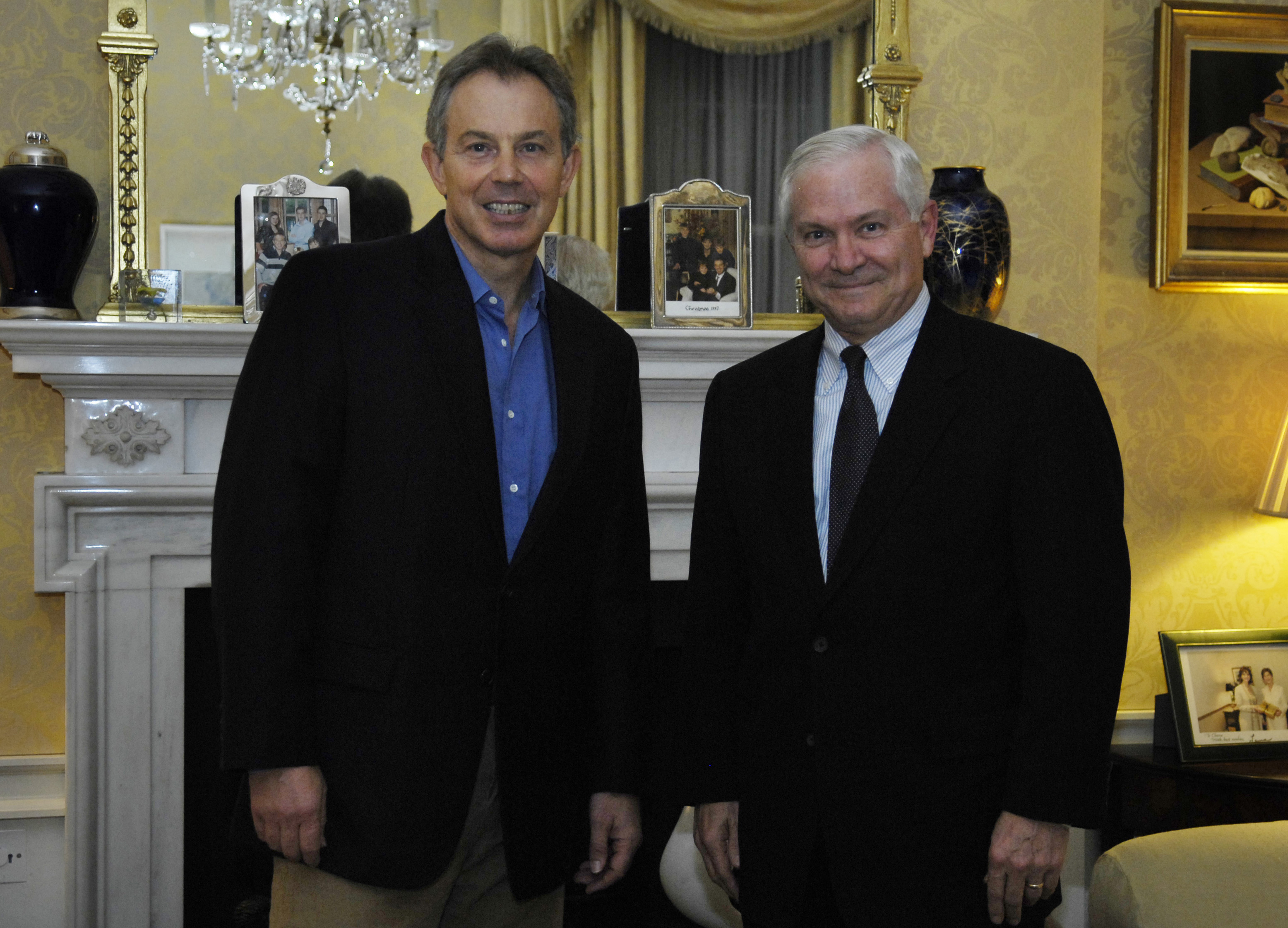 Secretary of Defense Robert M. Gates, right, poses for a photograph with Prime Minister Tony Blair at Blair's residence in London, England, Jan. 14, 2007. Gates met with Blair to discuss, among other topics, the new Iraq plan. DoD photo by Cherie A. Thur lby. (Released) (Released to Public)